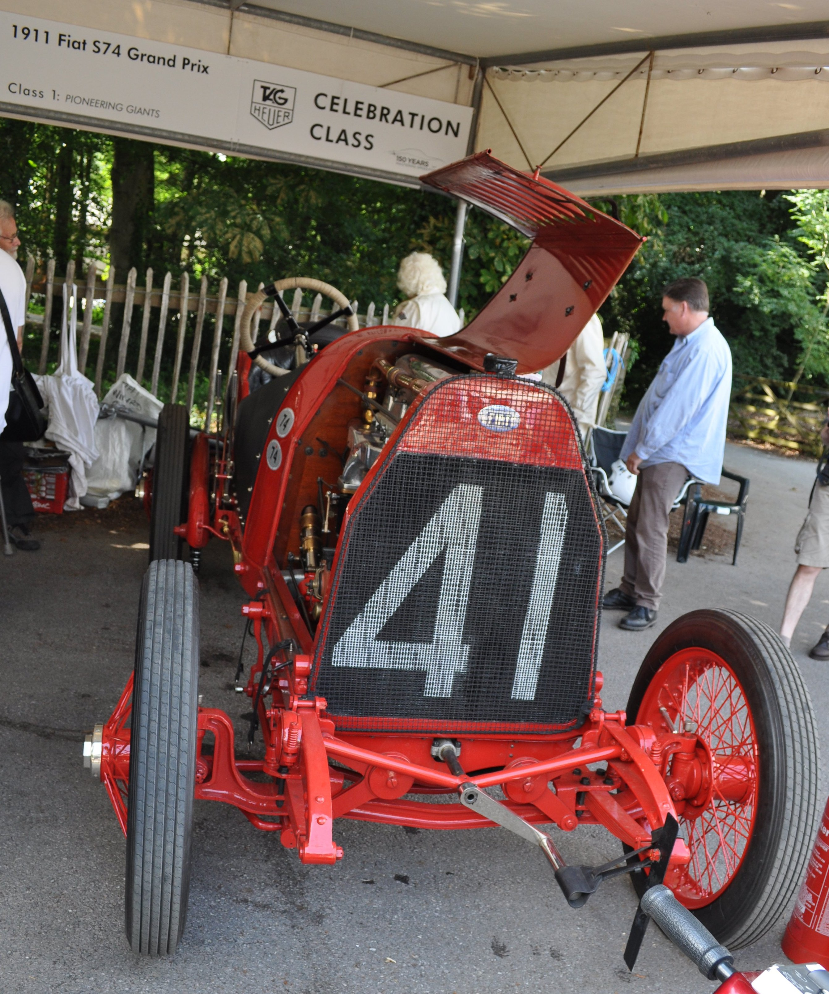 1911 Fiat S74 Grand Prix Car at Goodwood Festival of Speed 2011